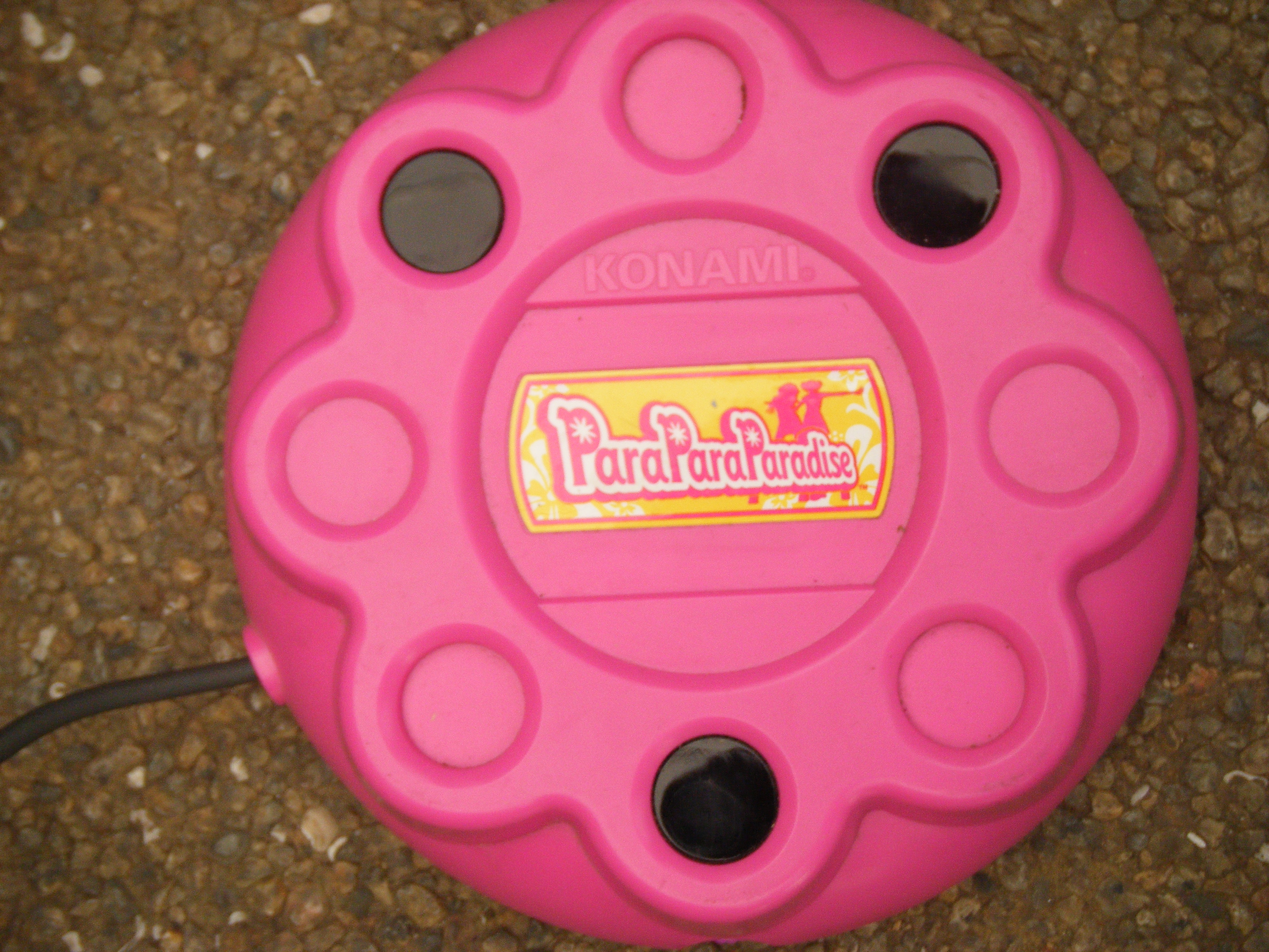 Para Para Paradise sensor pad.